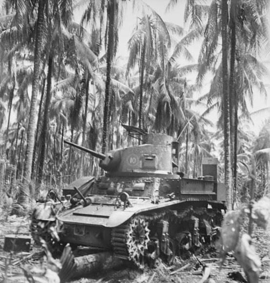 Lacking anti-tank weapons, the Japanese, surprised by the Australian use of tanks, had to improvise anti-tank defences by cutting down a coconut tree in the path of one of the oncoming tanks. That action temporarily disabled this M3 stuart light tank by 'bellying' it. The tank was afterwards pulled free from the obstacle by another tank and returned to action. The Japanese had placed a land mine alongside the fallen coconut palm, but the tank's angle after it had 'bellied' on the obstruction was away from the land mine, which was removed by Australian engineers. Had the tank contacted the mine, the explosion would have damaged its tracks, thereby putting it out of action.